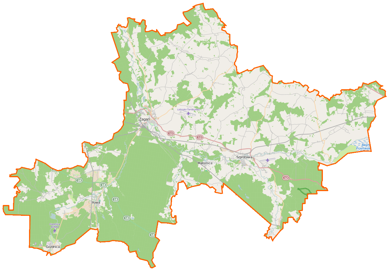 Map of Powiat żagański, Poland This map of Powiat żagański was created from OpenStreetMap project data, collected by the community. This map may be incomplete, and may contain errors. Don't rely solely on it for navigation.